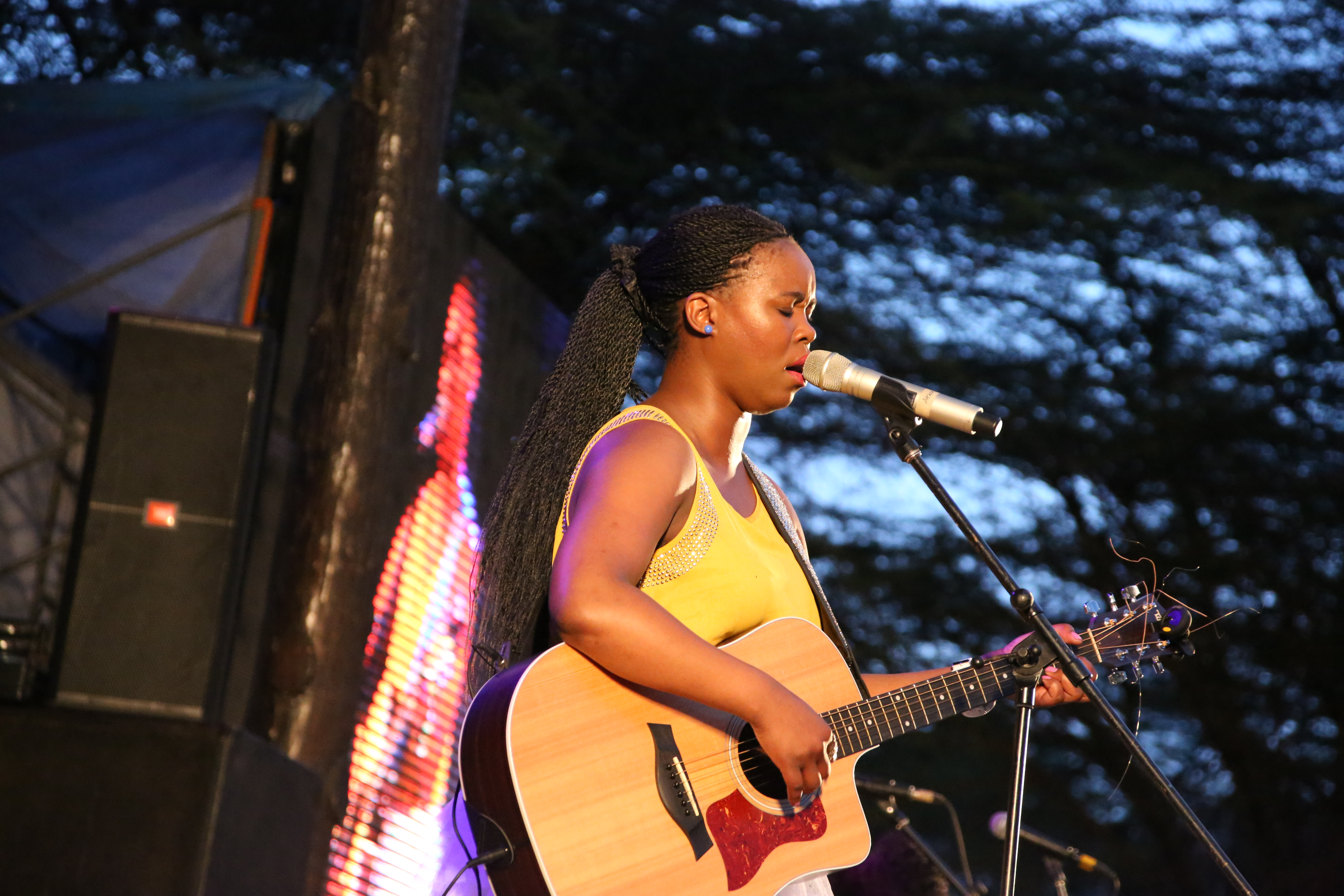 South African Singer and Poet Zahara in Nairobi, Kenya